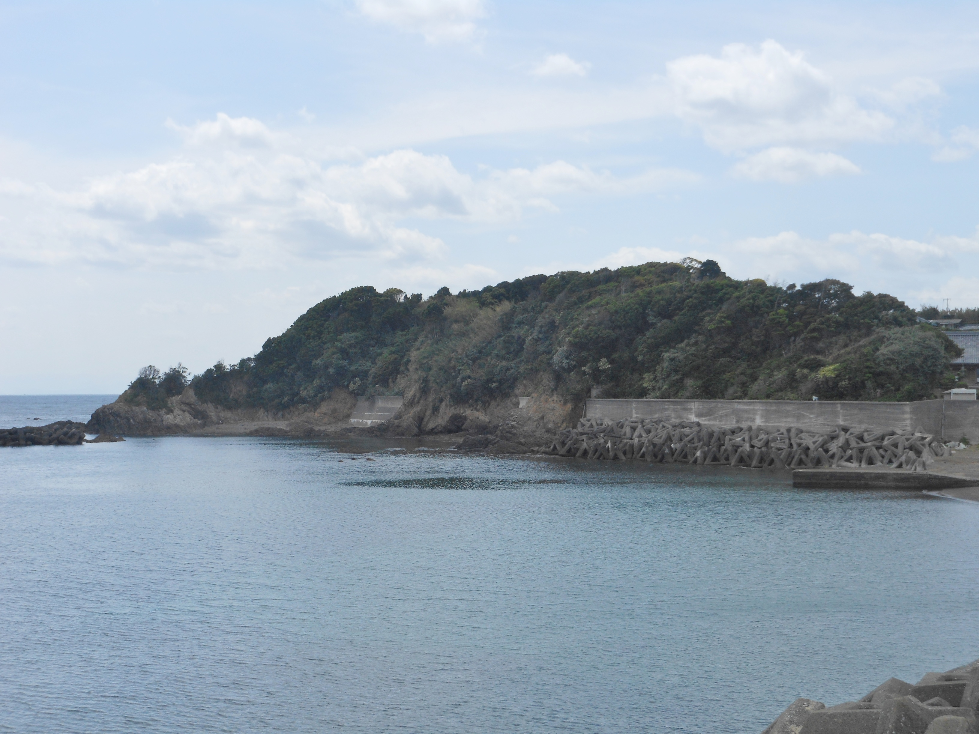 This is the site of Koshika Castle in Shimacho-Koshika, Shima, Mie, Japan.